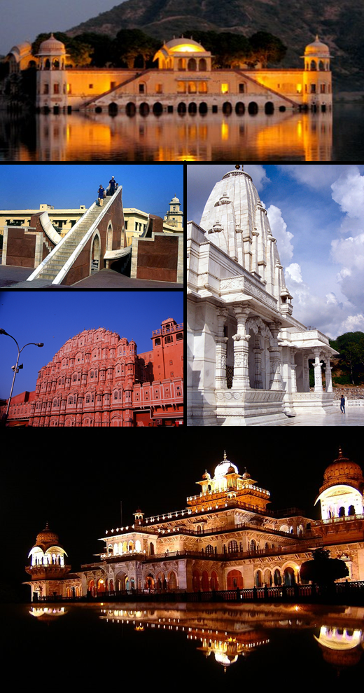 Montage of Jaipur, India